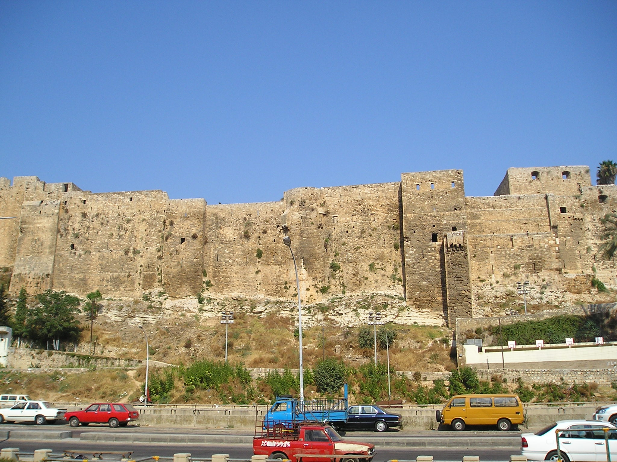 Tripoli, Lebanon - a view of the Citadel from the Nahr Abu Ali river